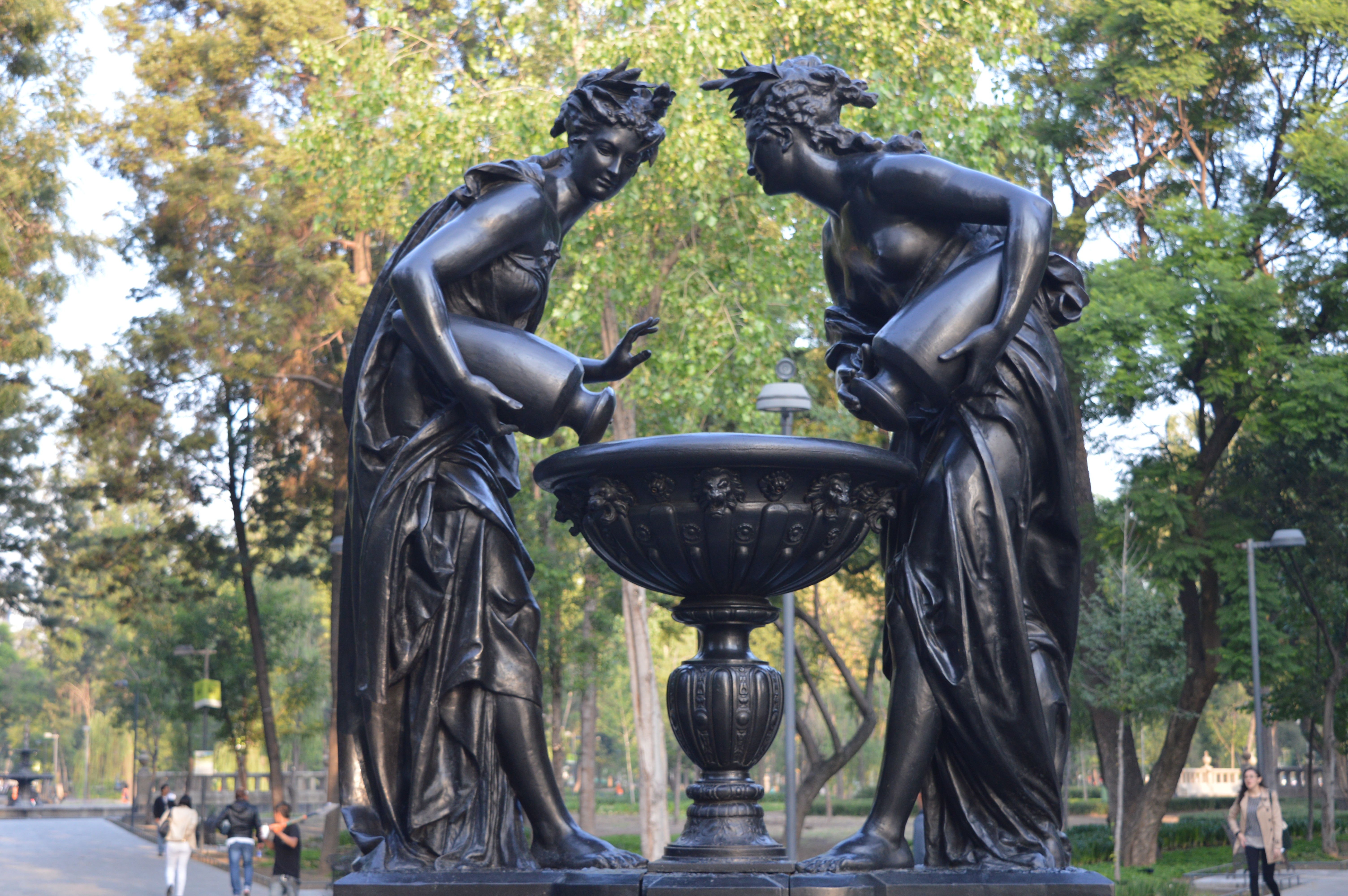 Statue at Alamada Central, Mexico City 02